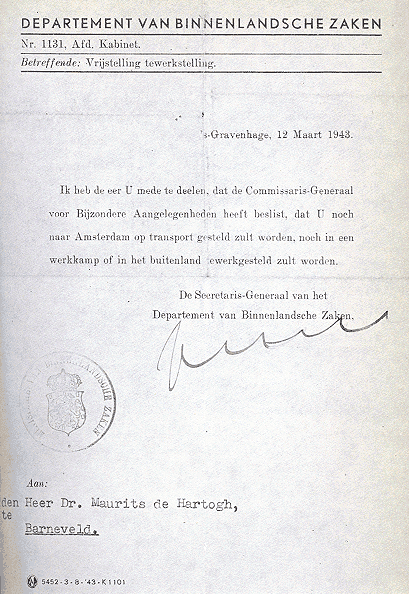 Een garantiebrief van mr. K.J. Frederiks